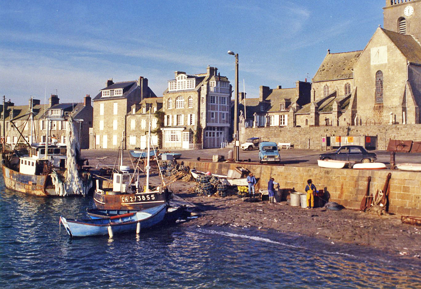 Barfleur Harbour, Normandy, France